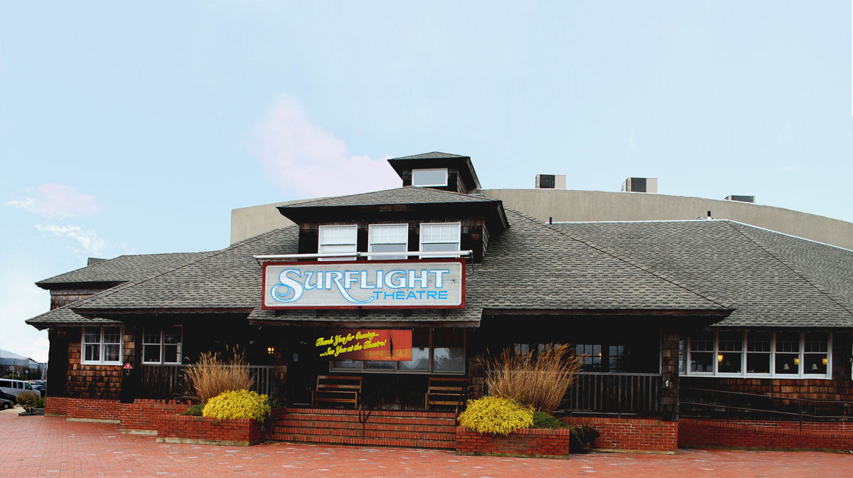 Entrance to the Surflight Theatre, a theatre located on Long Beach Island in New Jersey Photo By Sara Caruso